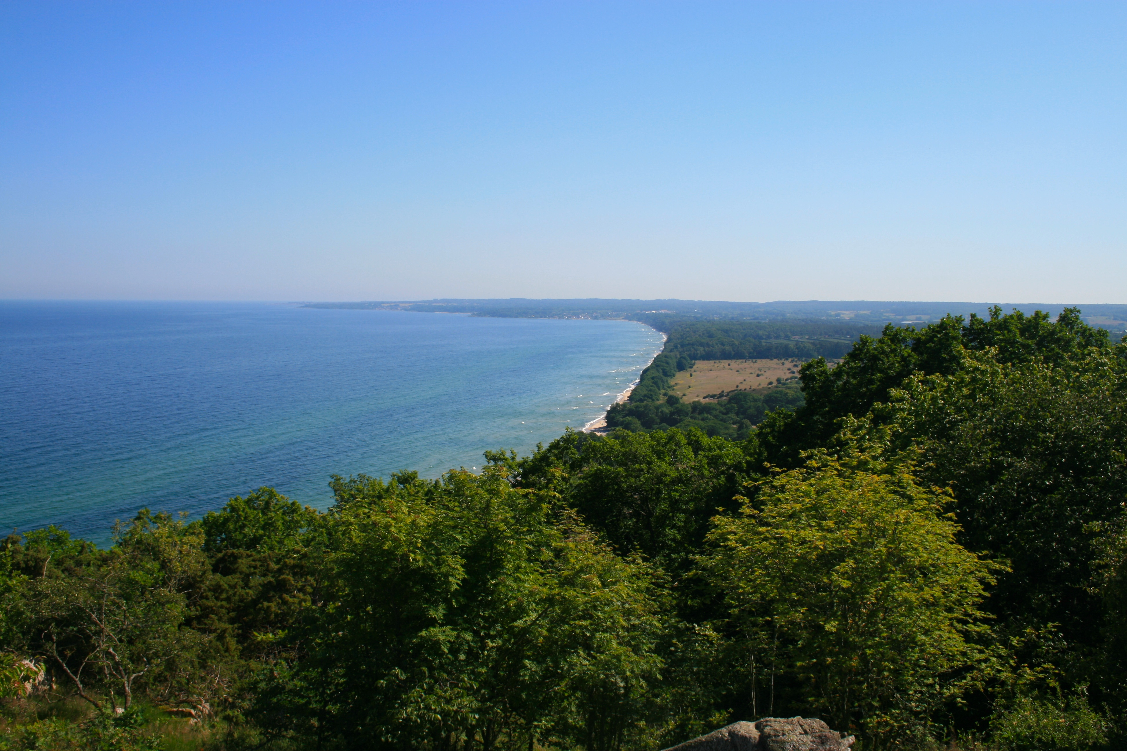 View toward the south from Östra Huvud, Stenshuvud national park